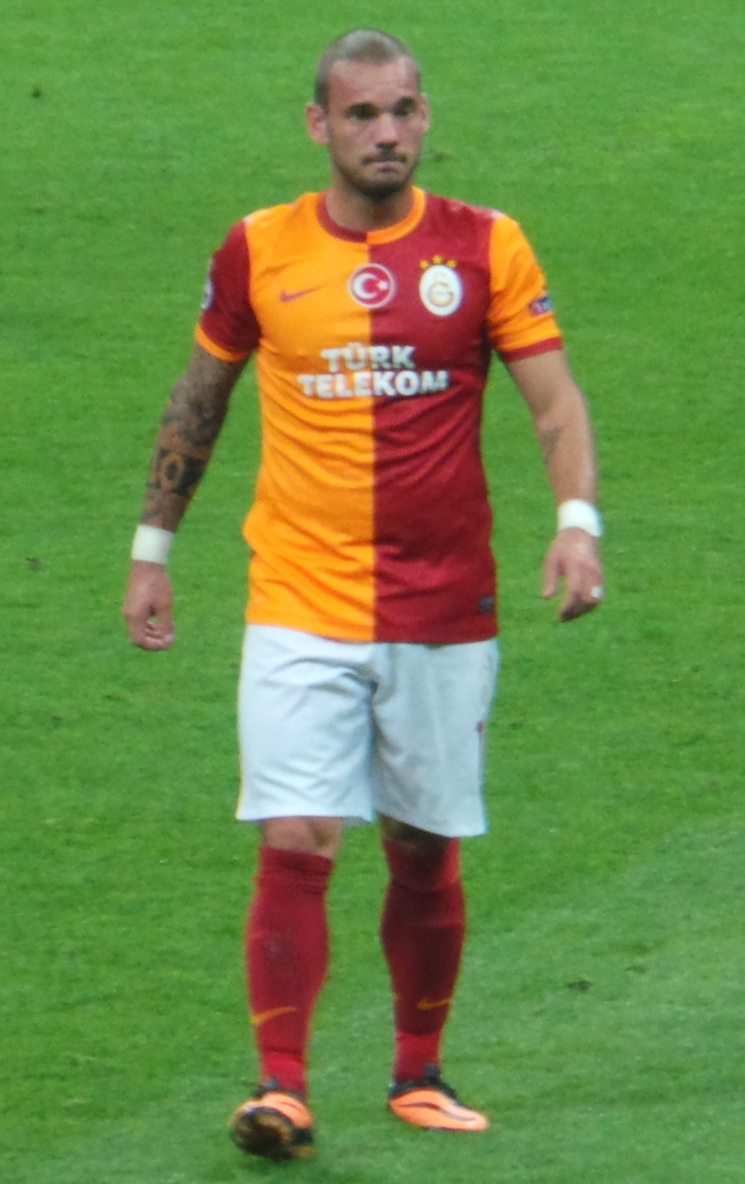 Sneijder with GS against Real Madrid.